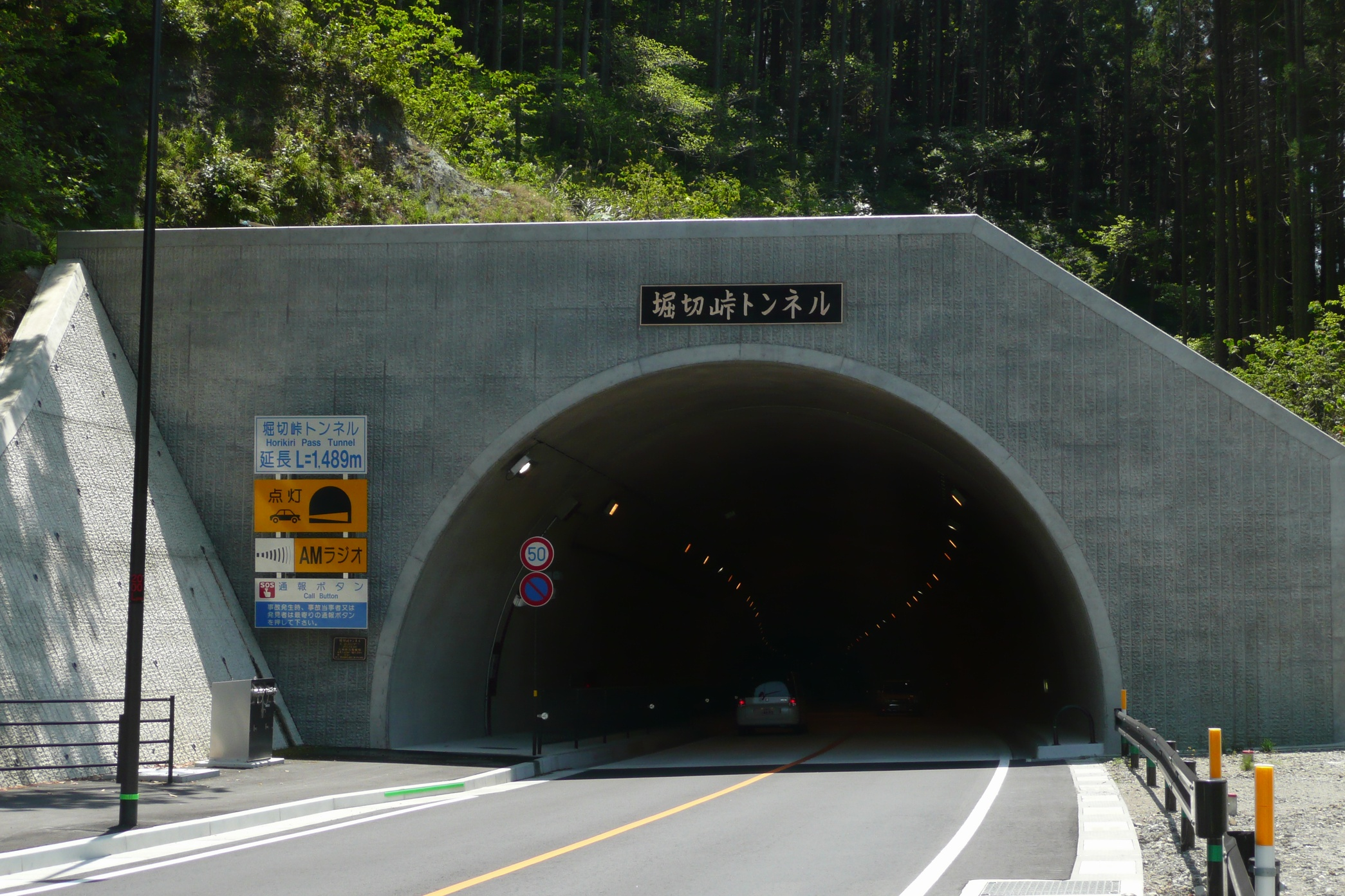 Route 220 Horikiri Pass Tunnel (Miyazaki City, Japan)